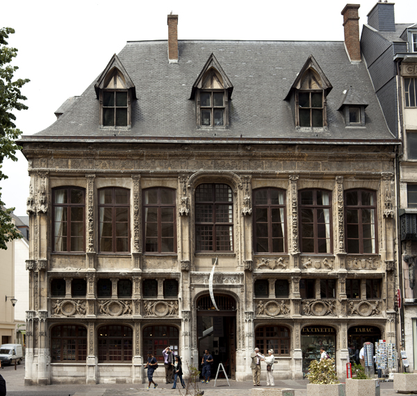 Rouen; Normandie, Seine-Maritime, France; ref PM_063208_F_Rouen; Ancien bureau des finances; ; Photographer: Paul M.R. Maeyaert; © Paul M.R. Maeyaert; ; Cultural heritage; Europe/France/Rouen; LoCloud selectie